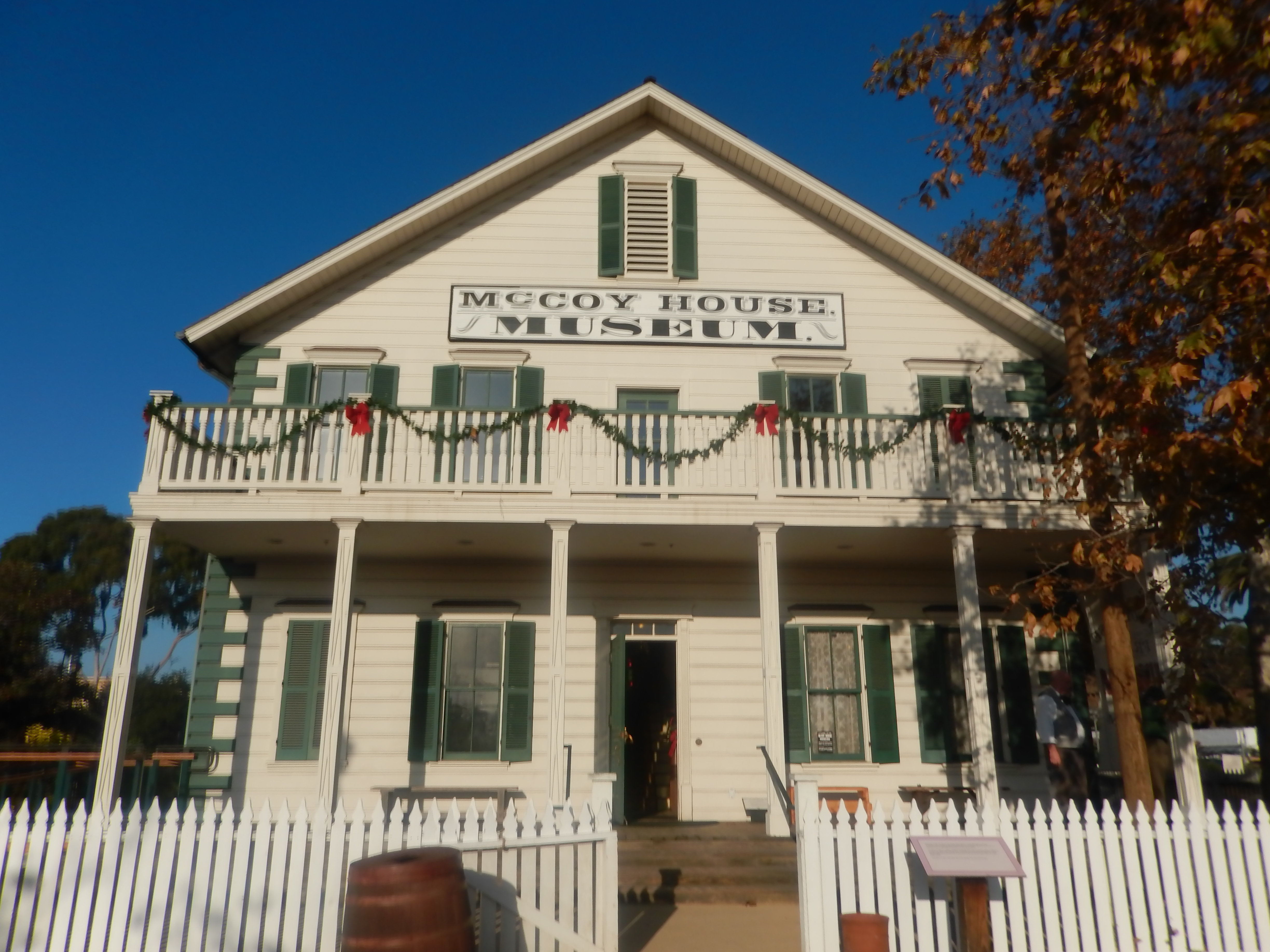 I took photo with Nikon camera of McCoy House Museum at Old Town in San Diego, CA.